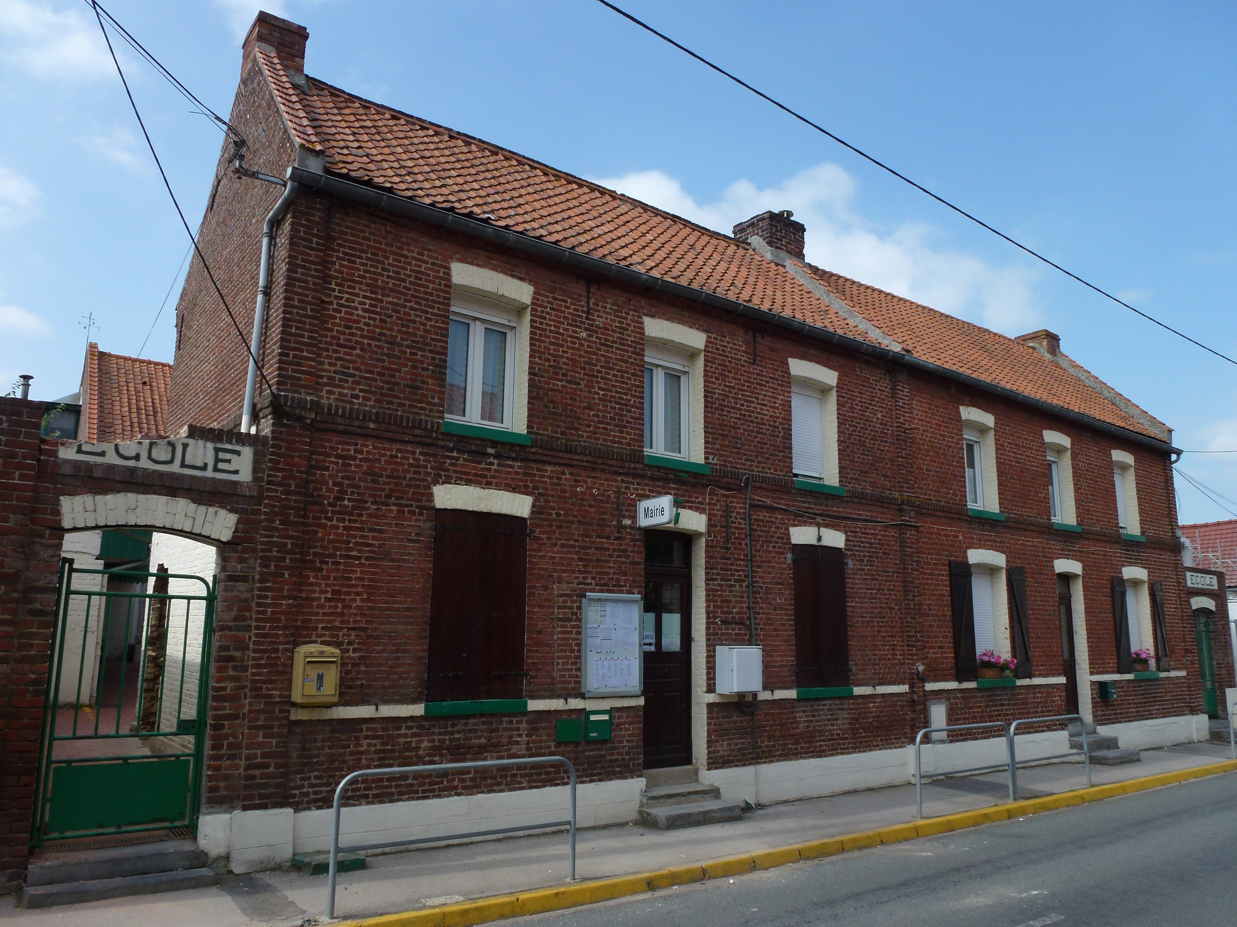 Ecquedecques (Pas-de-Calais, Fr) mairie - école